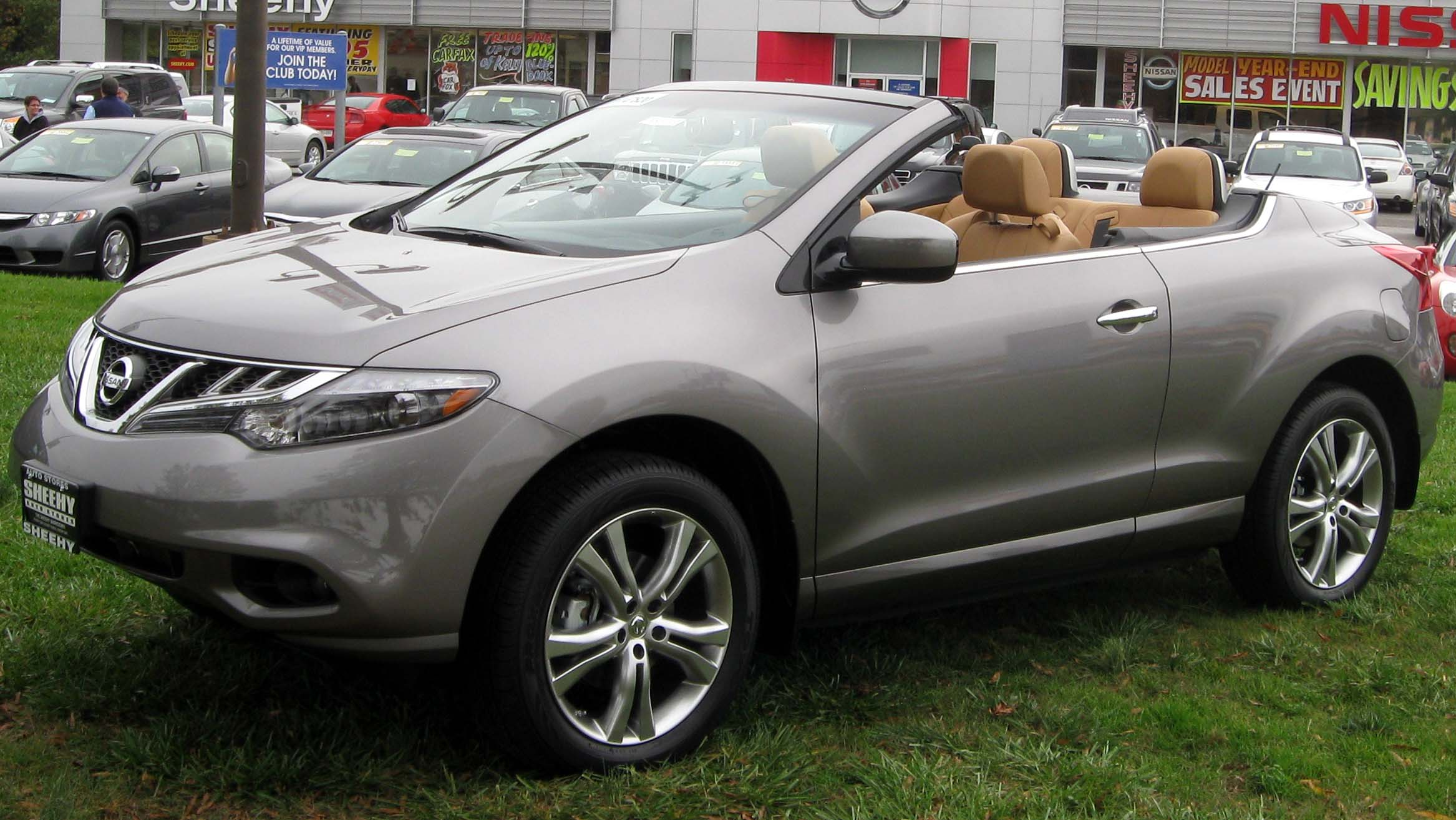 2011 Nissan Murano photographed in Waldorf, Maryland, USA.